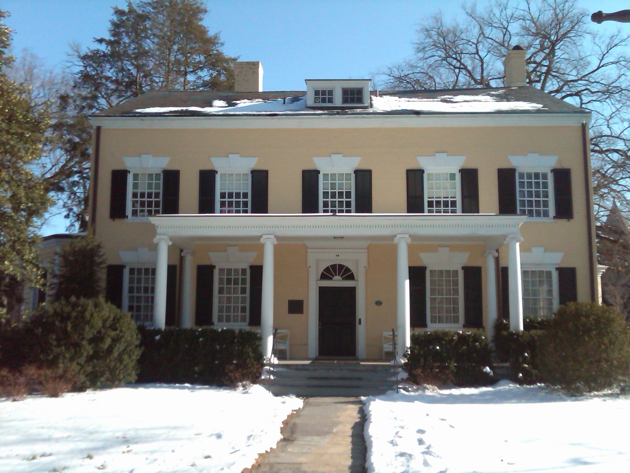 A photograph of Maclean House, also called the President's House, at Princeton University. Built 1756.